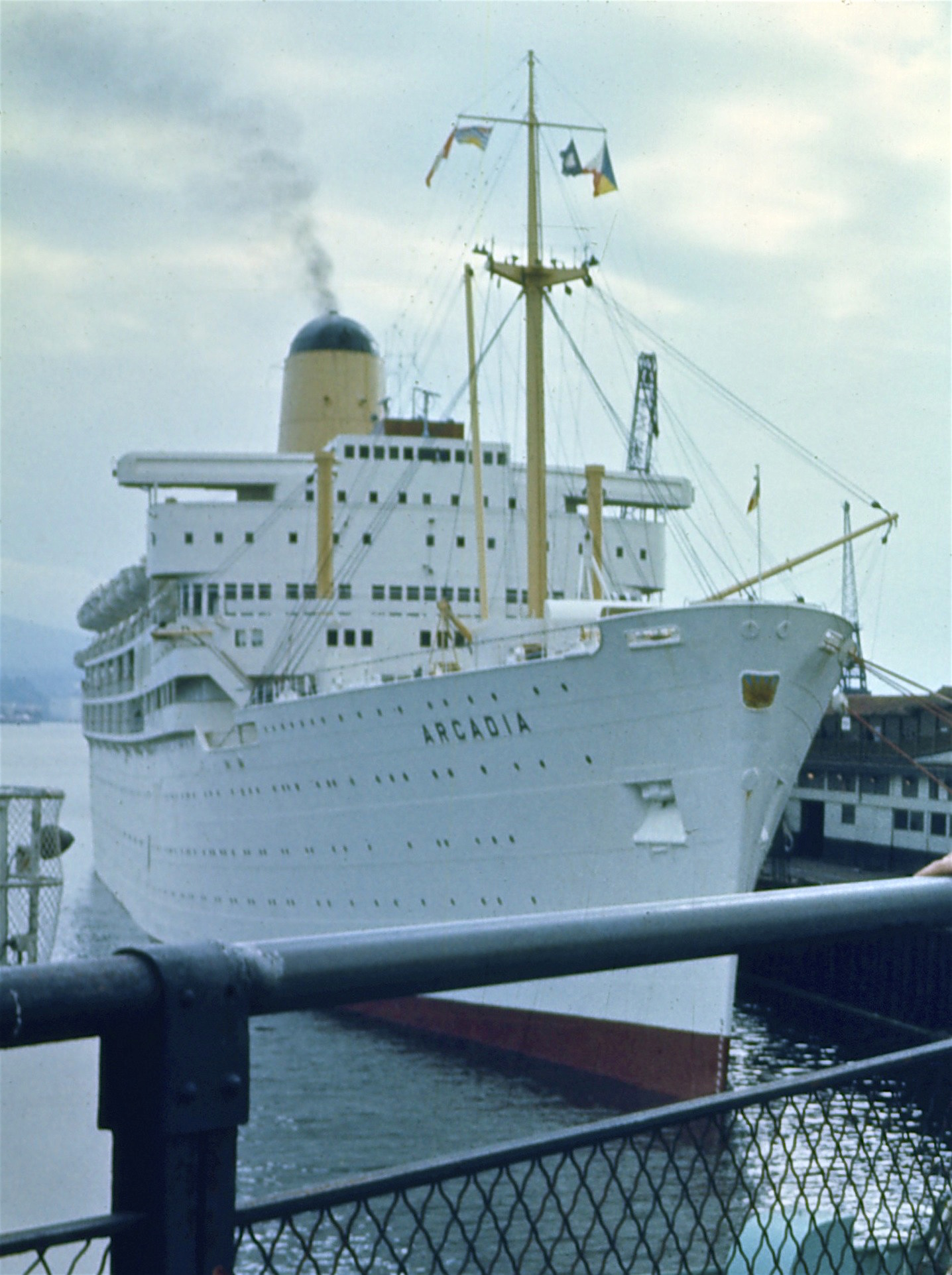 P&O SN Co passenger ship SS Arcadia docked in Vancouver, BC, Canada in May 1974, waiting to leave on a cruise to Hawaii via Portland, Oregon